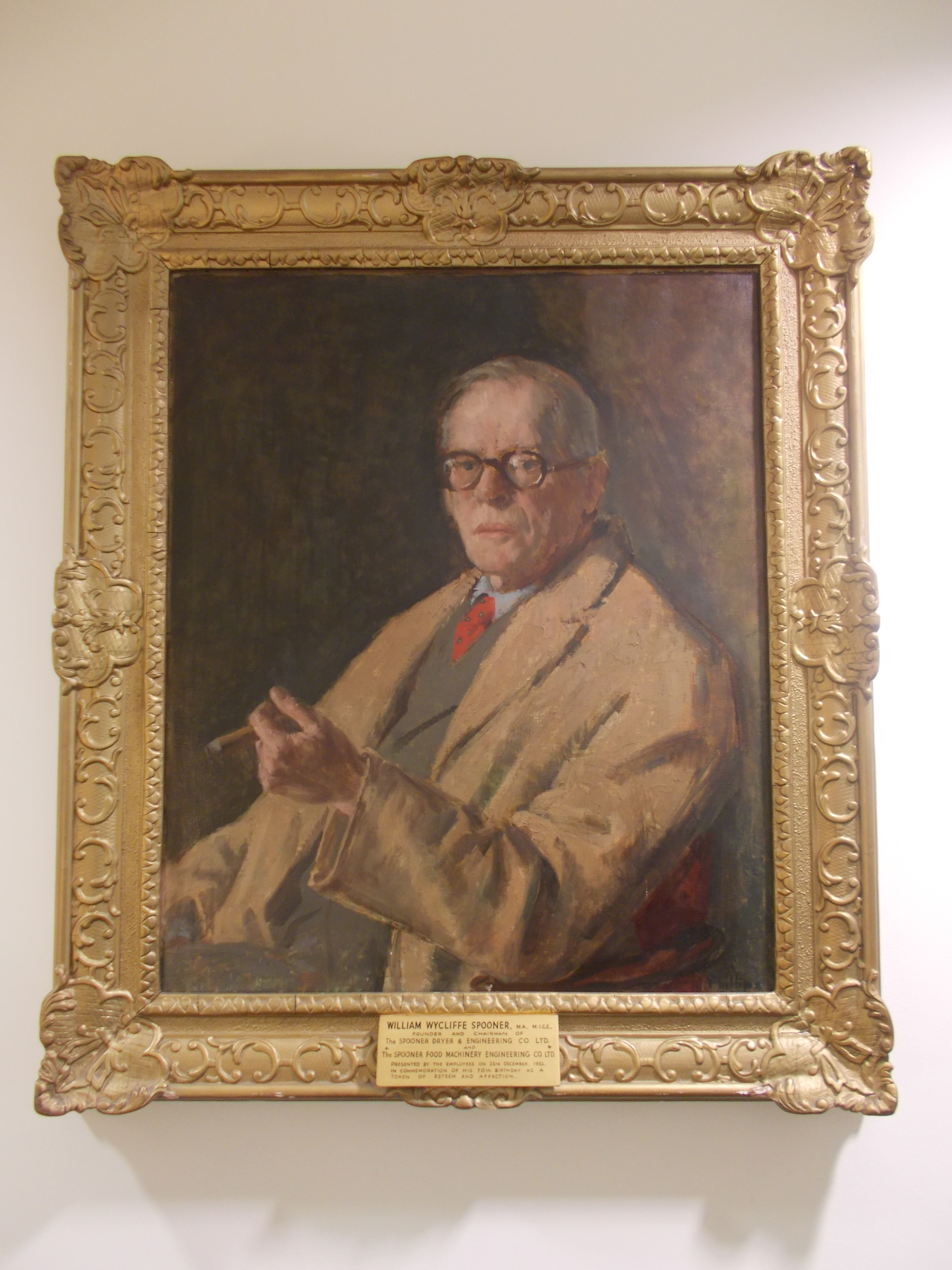 Oil Painting presented to William Wycliffe Spooner on his 70th birthday by his employees. Inscription reads "Presented by the employees on 23rd December, 1952, In commemoration of his 70th birthday as a token of esteem and affection."